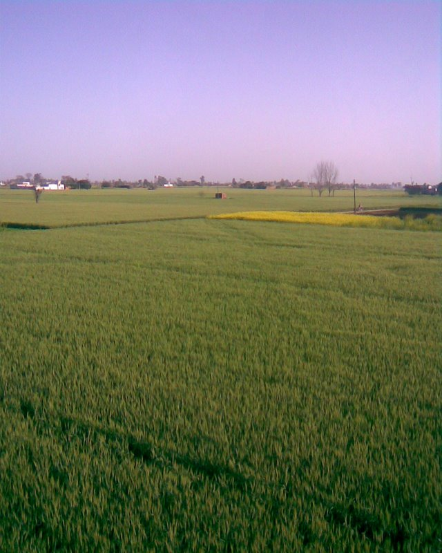 farms in buttar sivia,,,from dhardayia farm house